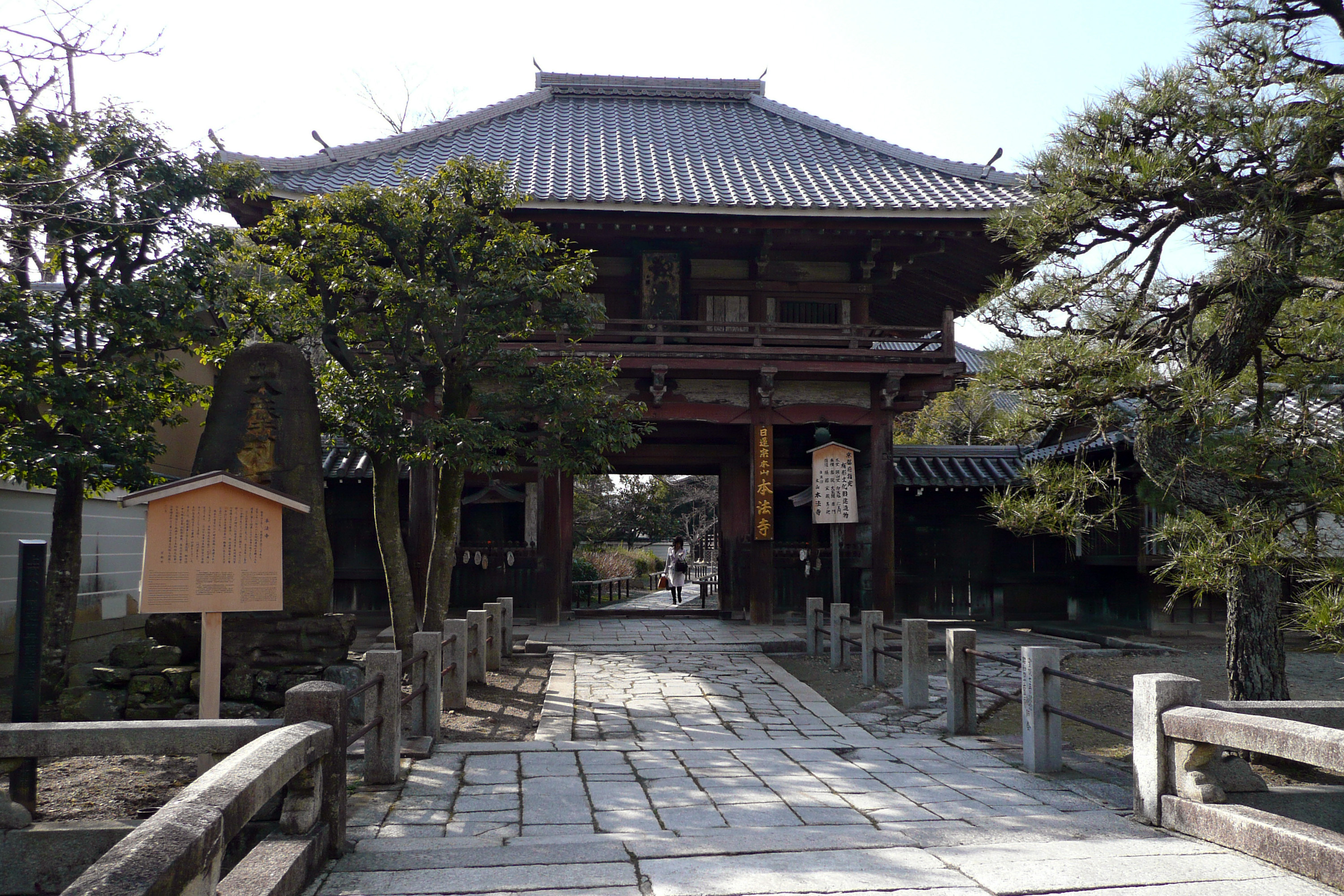 Honpoji in Kyoto, Kyoto prefecture, Japan